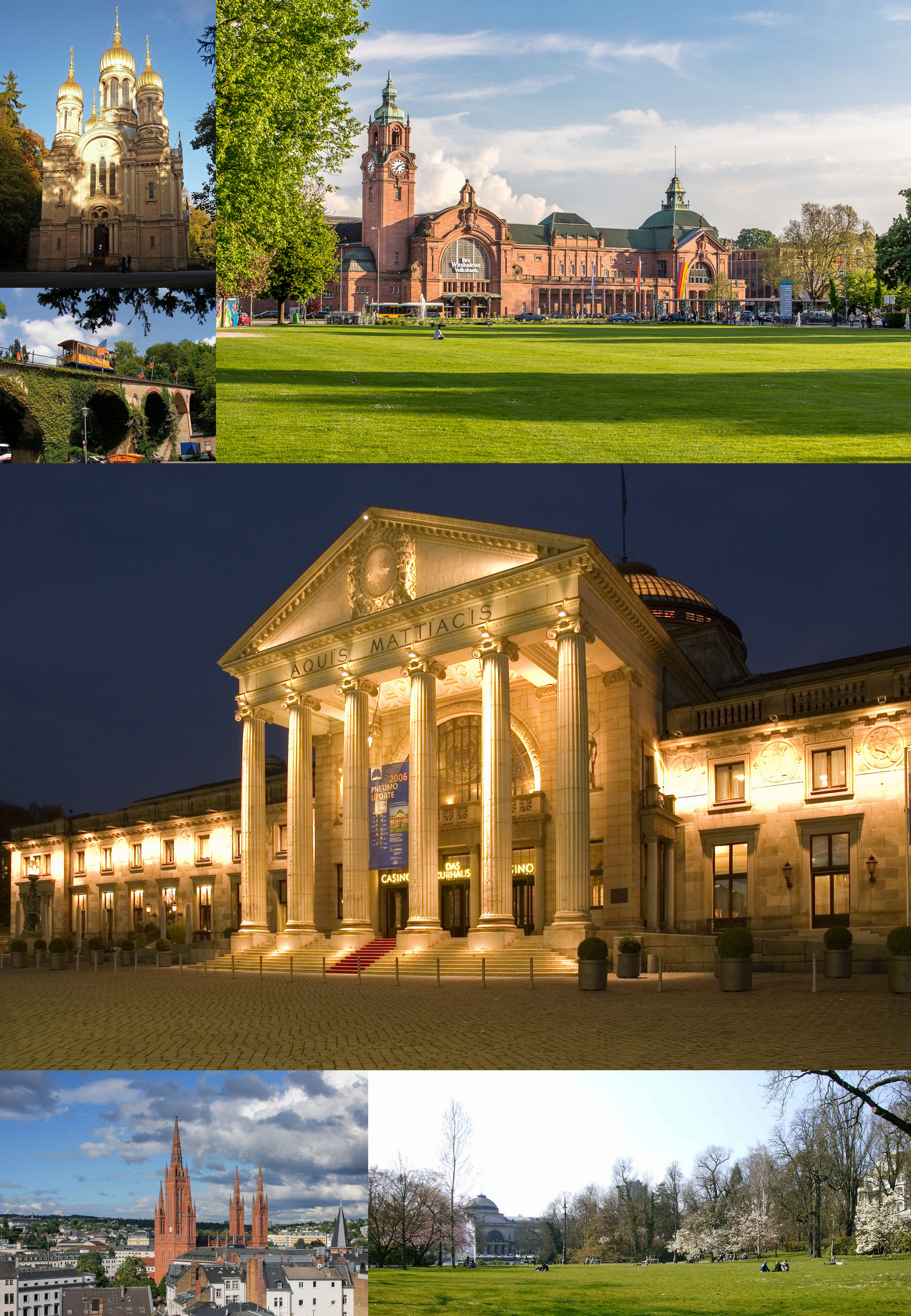 Photo collage of Wiesbaden